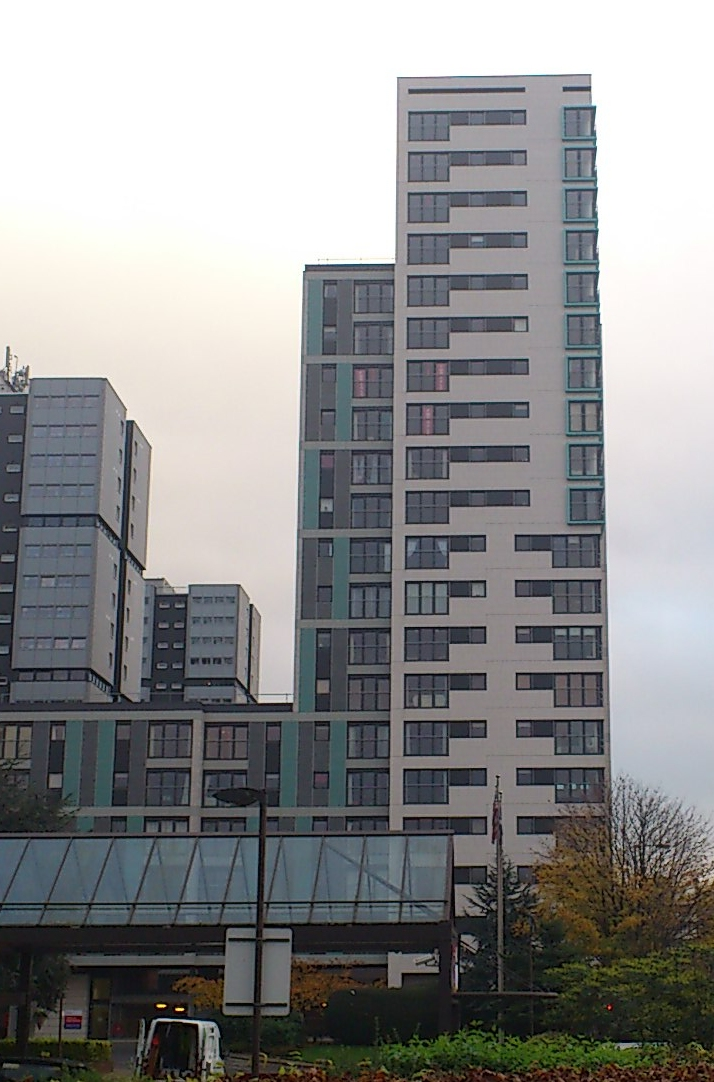 The Argyle Building in the Anderston area of Glasgow, Scotland. A private residential tower built in 2006-7 it is one of the highest buildings in the city centre.